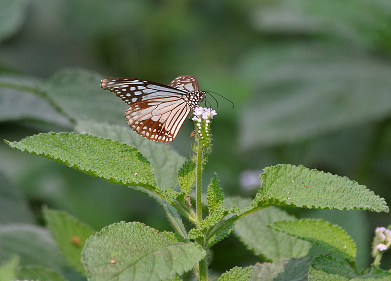 Glassy Tiger Parantica aglea at Jayanti in Buxa Tiger Reserve in Jalpaiguri district of West Bengal, India.